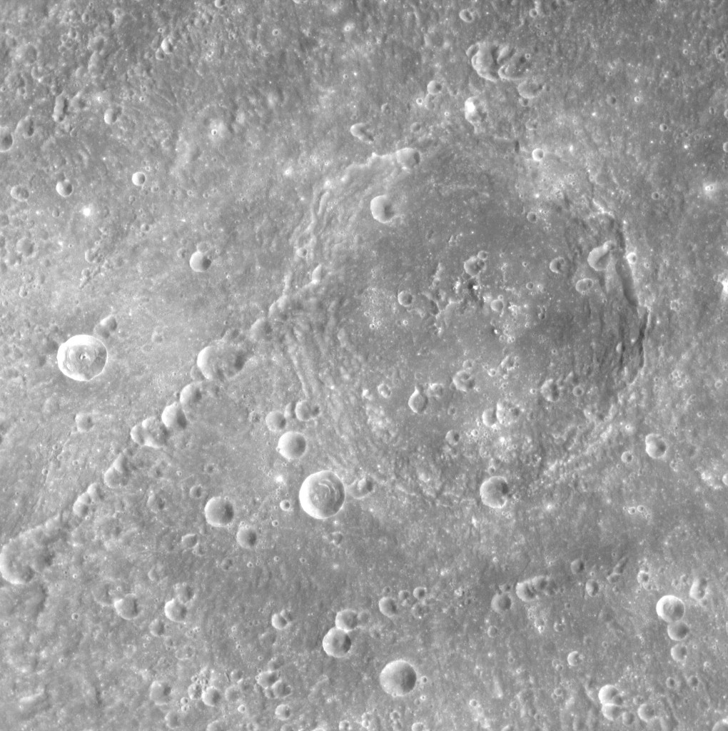 Kerouac crater under high sun angle on Mercury. MESSENGER Wide Angle Camera, rotated and cropped slightly. North is in upper left. Emission Angle: 0.2 Incidence Angle: 34.3 Latitude: 25.4 Longitude: 128.4 Phase Angle: 34.3